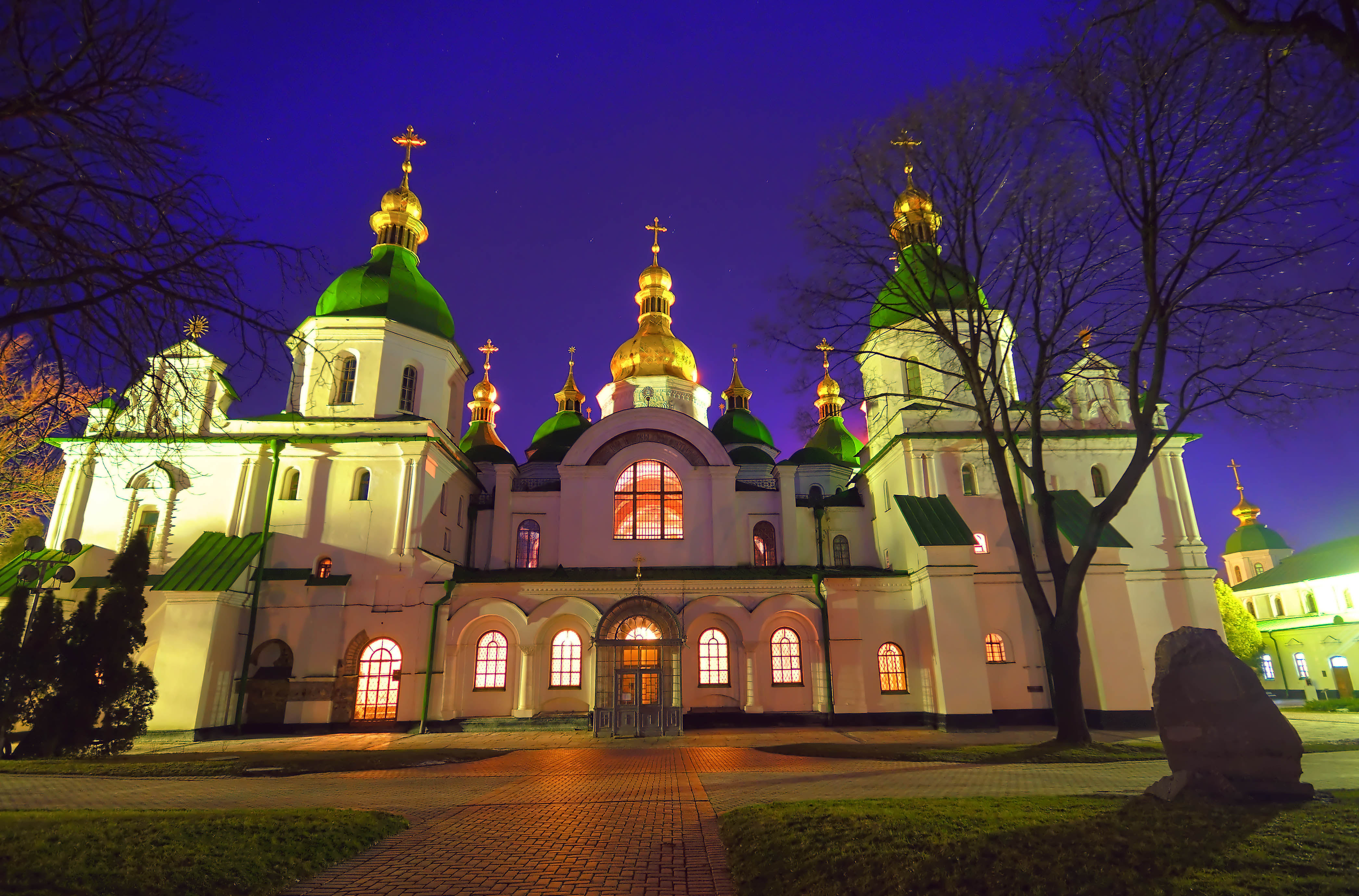 Cathedral of St.Sophia KIEV